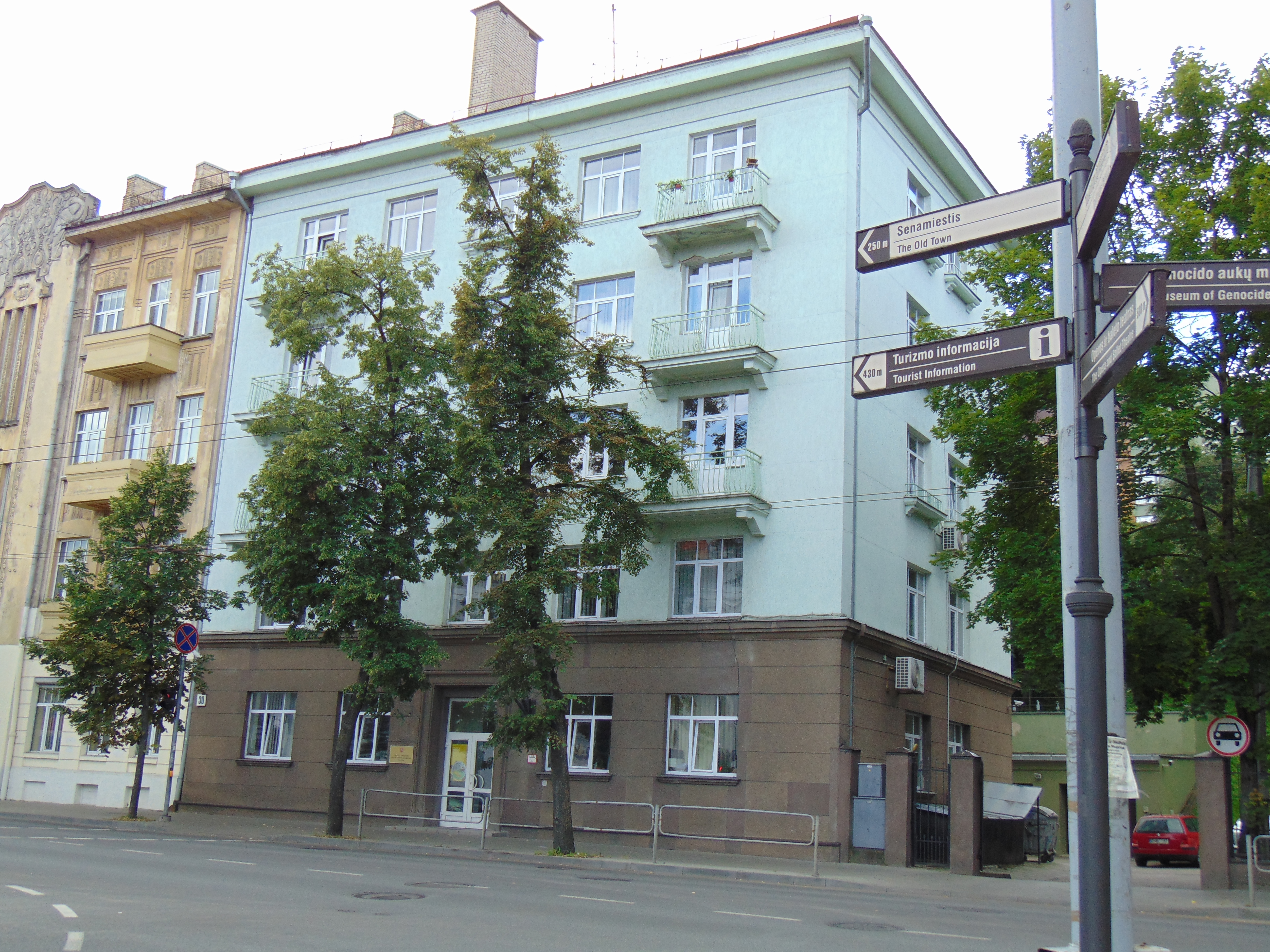 Building of Department of Civil Defence